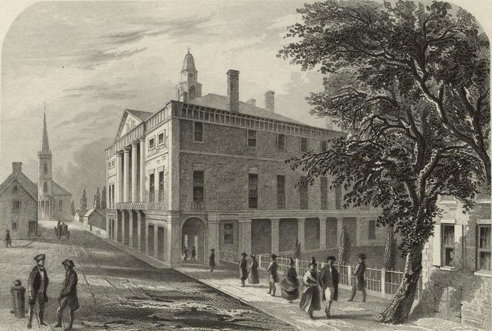 "Old City Hall, Wall St., N.Y." Steel engraving by Robert Hinshelwood, from Washington Irving's Life of George Washington, 5 vol. (1855-59).